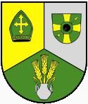 Wappen Brachtendorf This file depicts the coat of arms of a German Körperschaft des öffentlichen Rechts (corporation governed by public law). According to § 5 Abs. 1 of the German Copyright law, official works like coats of arms are in the public domain. Note: The usage of coats of arms is governed by legal restrictions, independent of the copyright status of the depiction shown here.